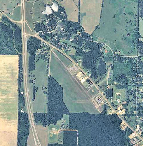 USGS digital orthophoto of Stinson Field Municipal Airport in Mississippi.